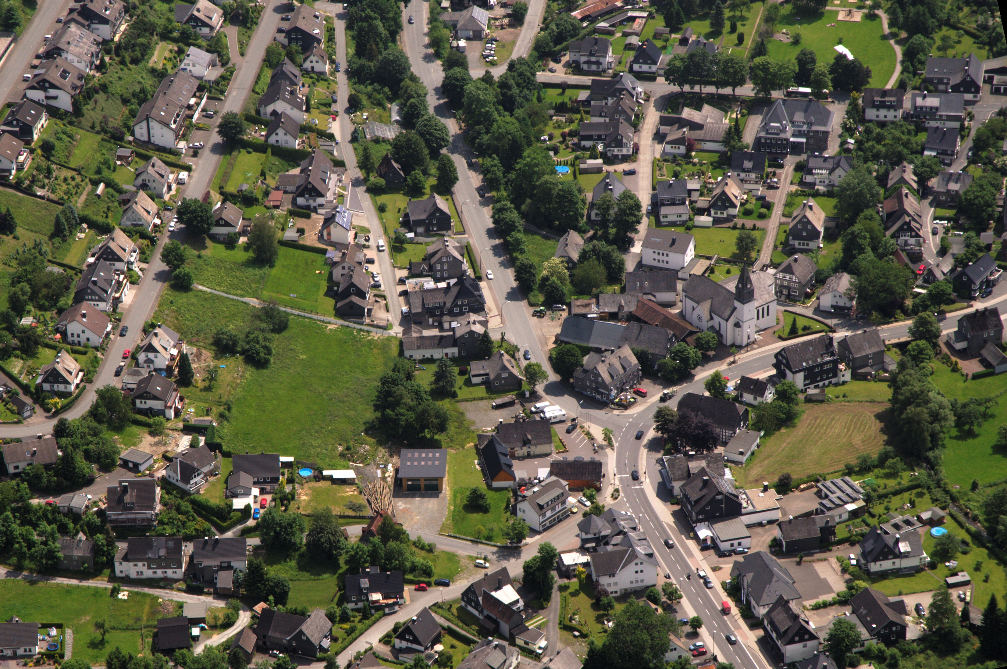 Fotoflug Sauerland-Ost: Niedersfeld mit Ortskern und katholischer Kirche St. Agatha. The making of this document was supported by the Community-Budget of Wikimedia Germany.